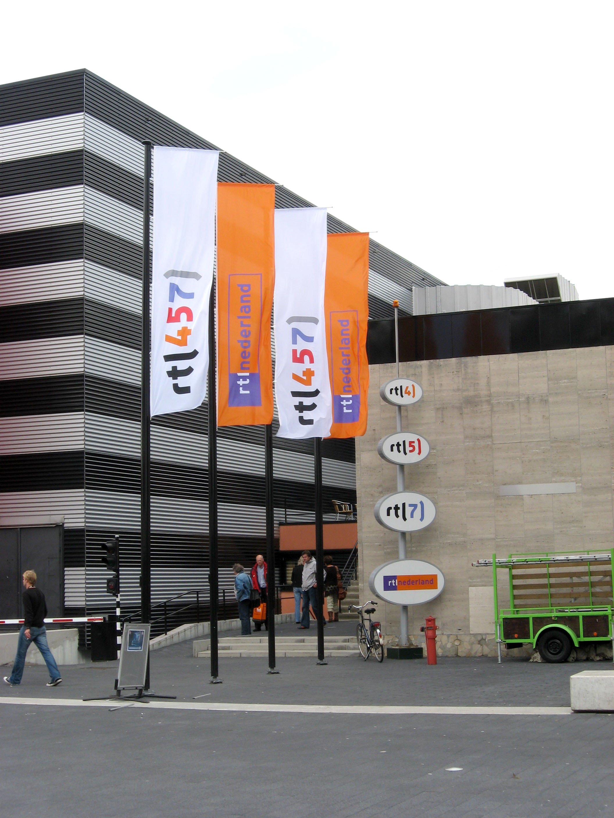 Flags for the Dutch broadcasting company 'RTL' at the Media Park in Hilversum, The Netherlands.